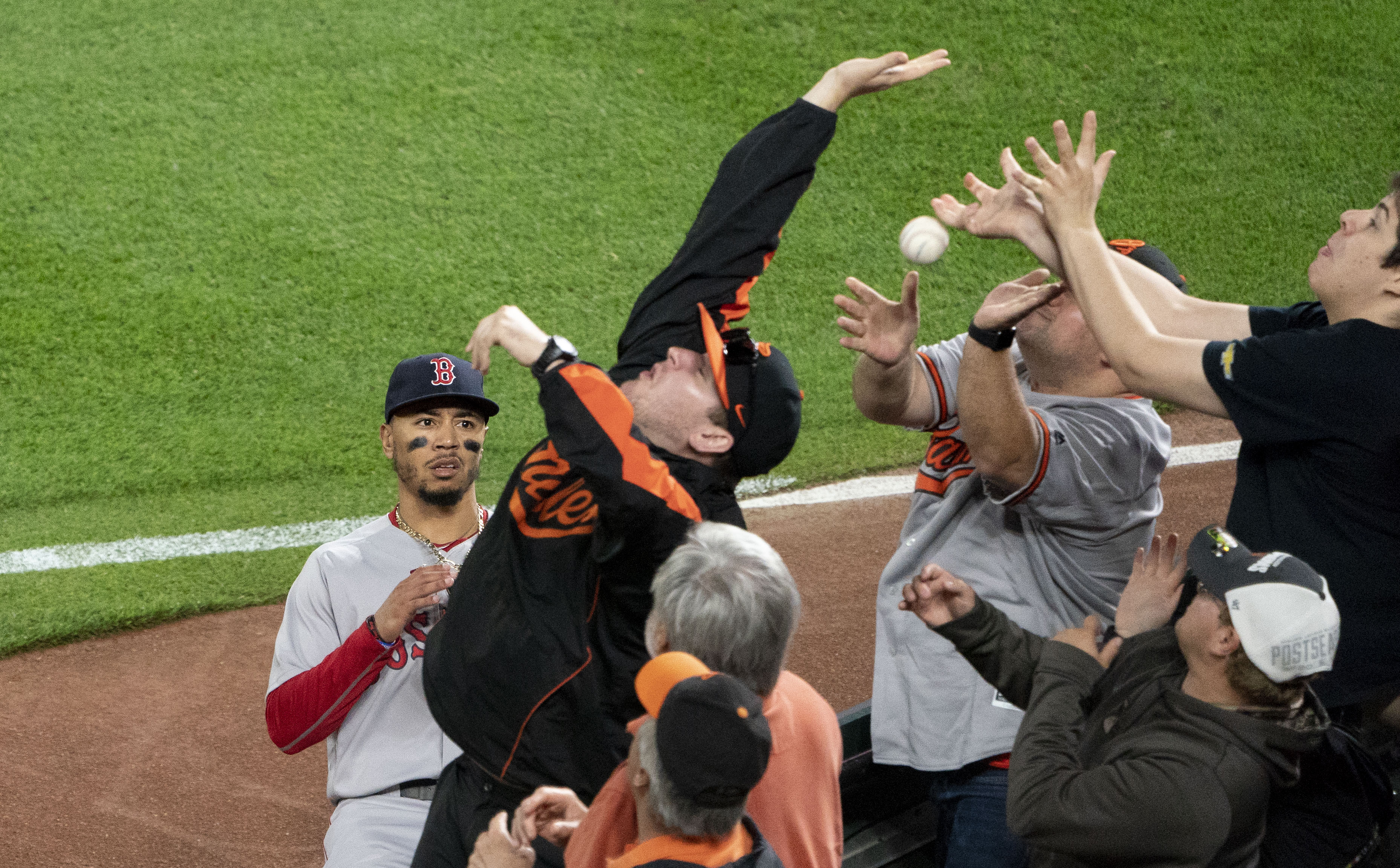 2018 Boston Red Sox season